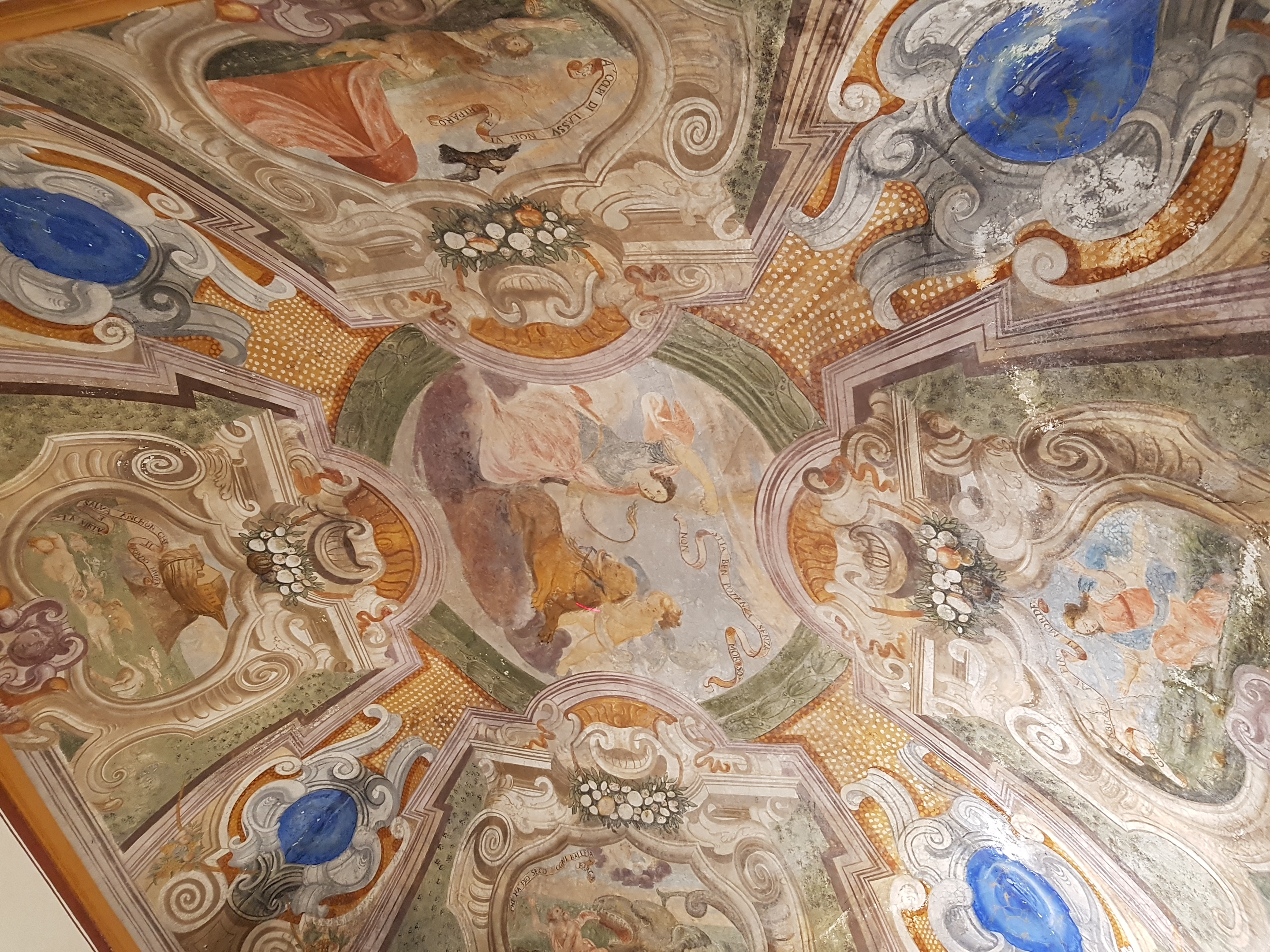 Marini Palace, XVII century, Borgofranco d'Ivrea, Northern Italy